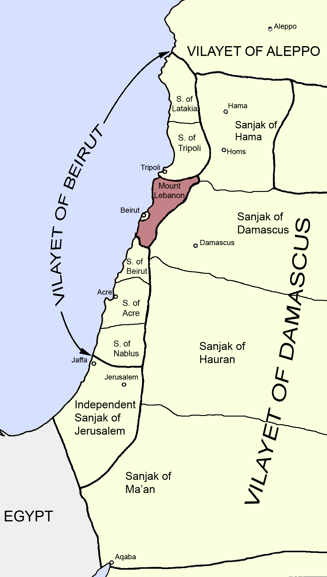 Political borders of Ottoman Syria' in 1914. Source: Collapse of Empire: Ottoman Turks and the Arabs in the First World War, itself from King Husain and the Kingdom of Hejaz By Randall Baker.